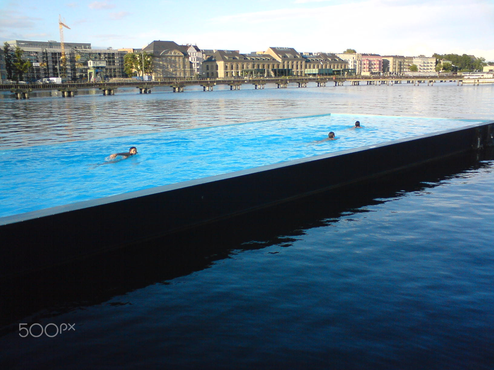 500px provided description: Black Rimmed Recreation [#river ,#blue ,#light ,#summer ,#waterfront ,#swimming pool ,#Badeschiff ,#Berlin ,#Spree ,#Flussschwimmbad]